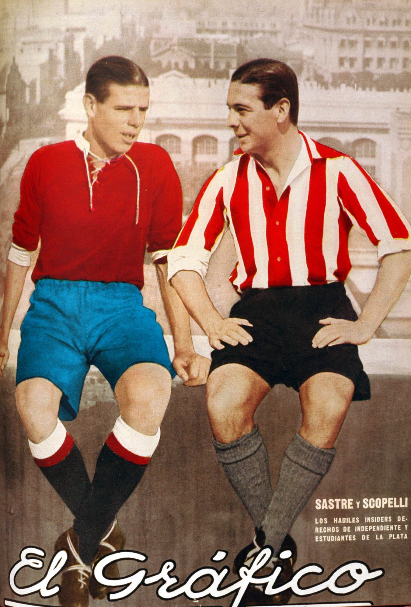 Antonio Sastre and Alejandro Scopelli.